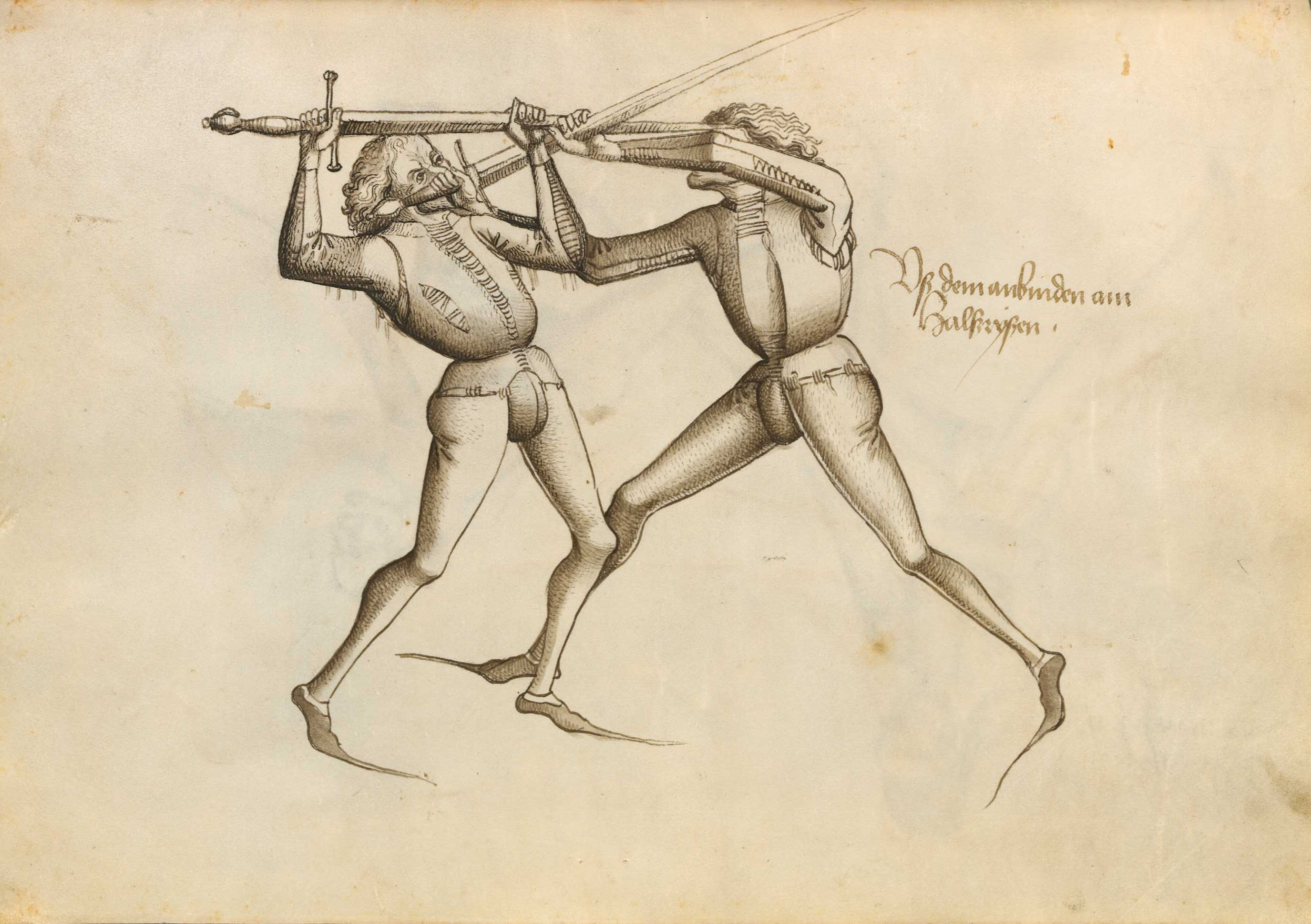 This is a scan of the historical Fechtbuch ('fencing book') by German fencing master Hans Talhoffer.